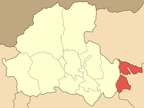 Locator map of Pellas municipality (Δήμος Πέλλας) at Pellas perfecture, Macedonia, Greece.